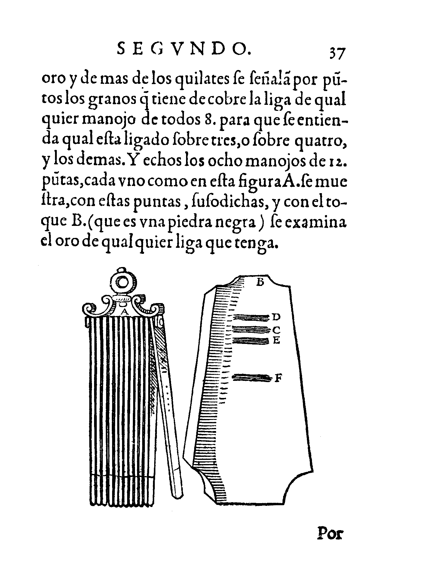 facsimile reproduction of page 37